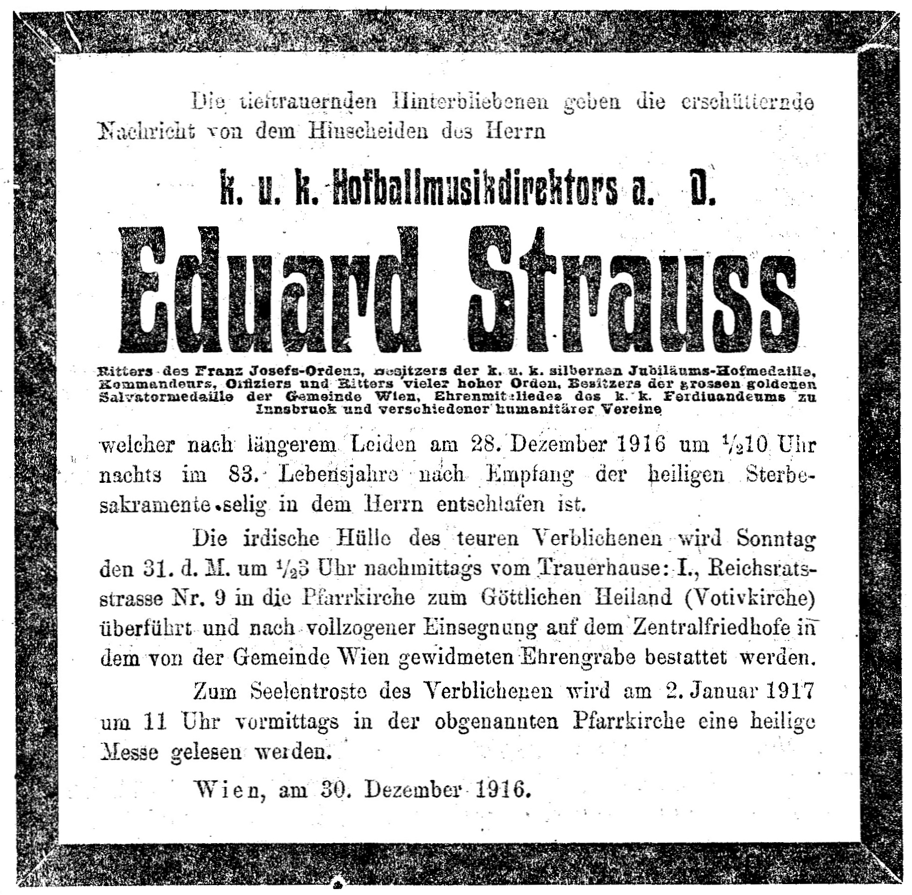 death notice of Eduard Strauss